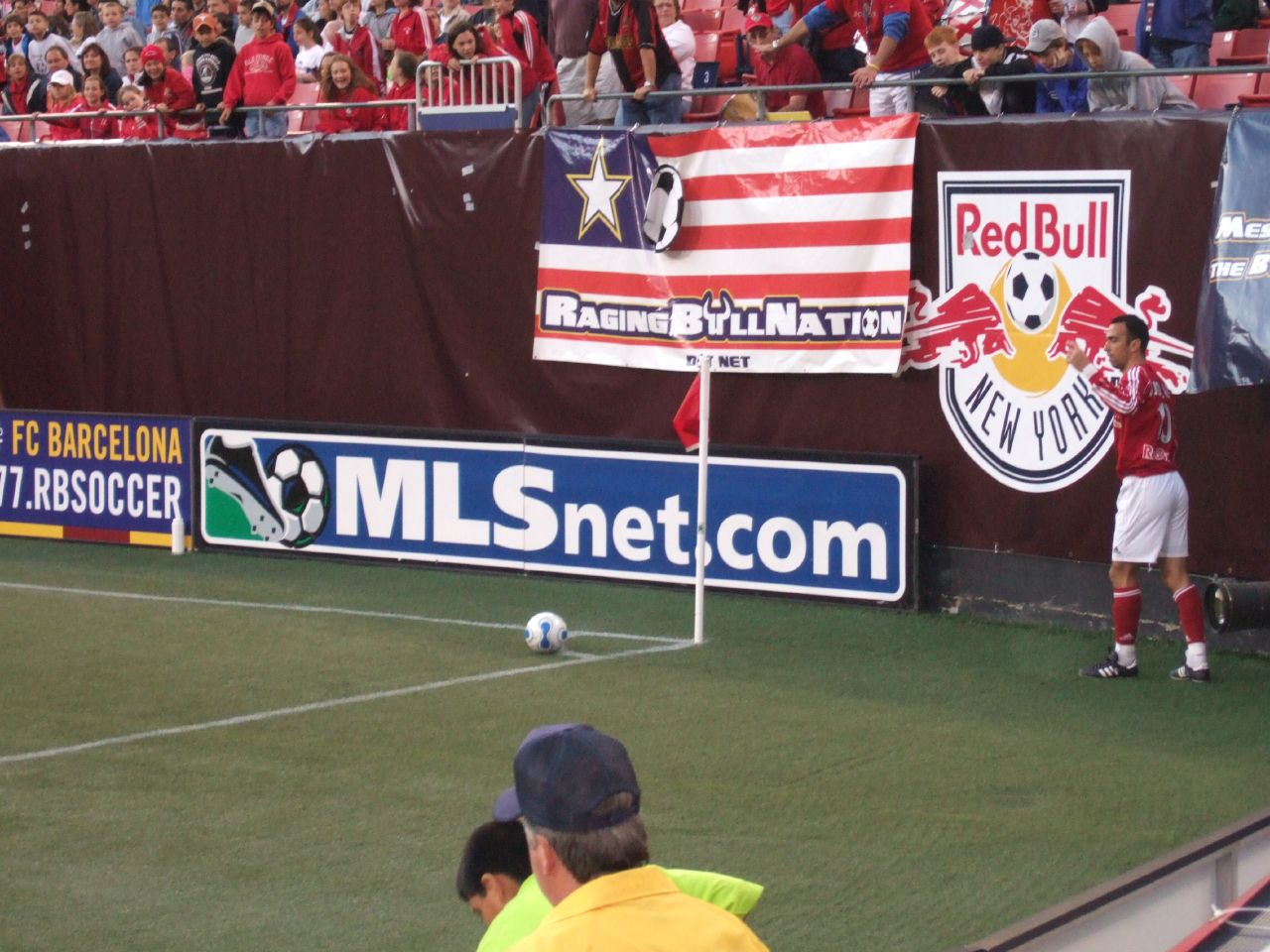 Youri Djorkaeff takes a corner with Red Bull New York